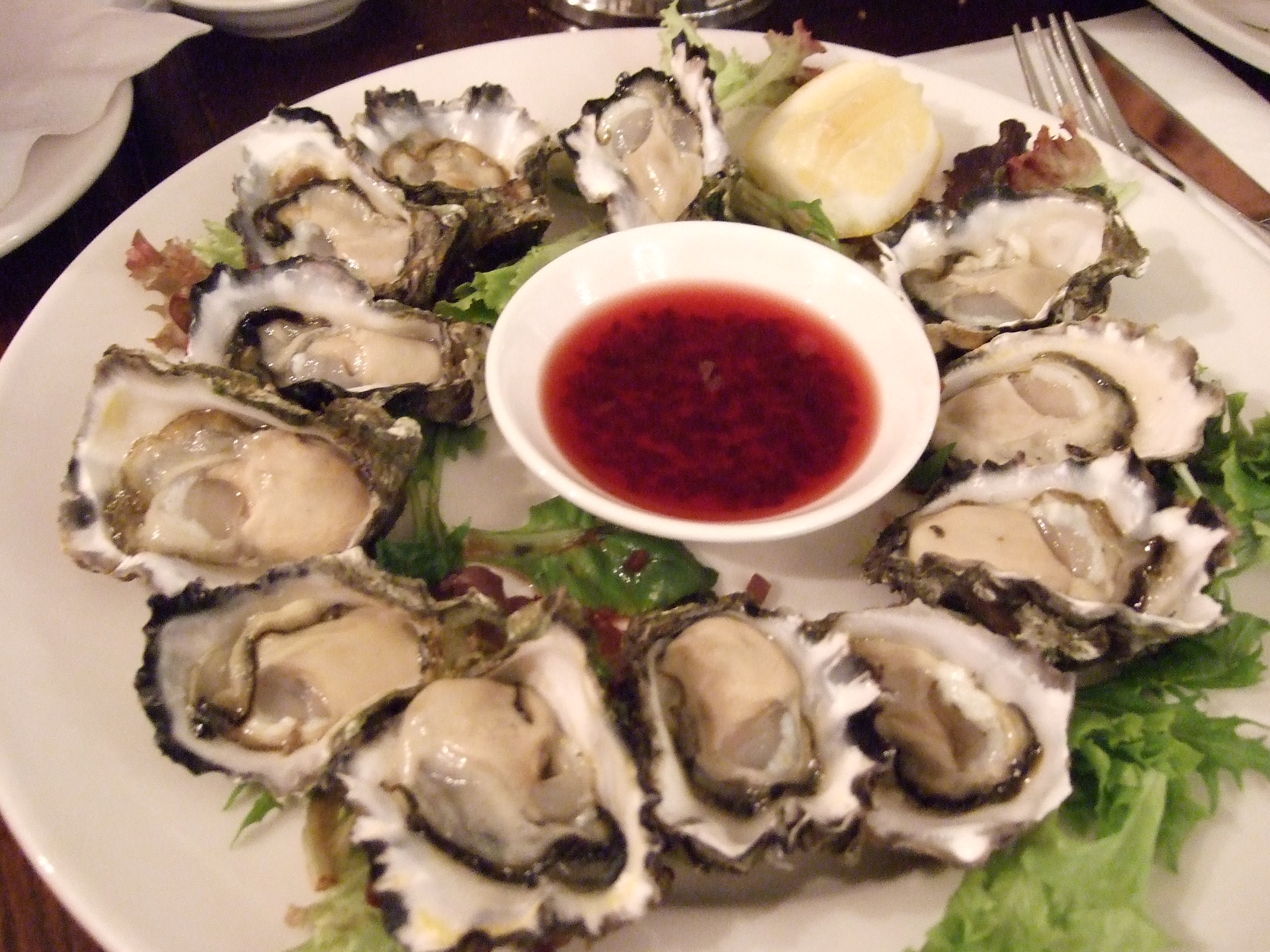 At Belgian Beer Cafe, the Rocks, Sydney.